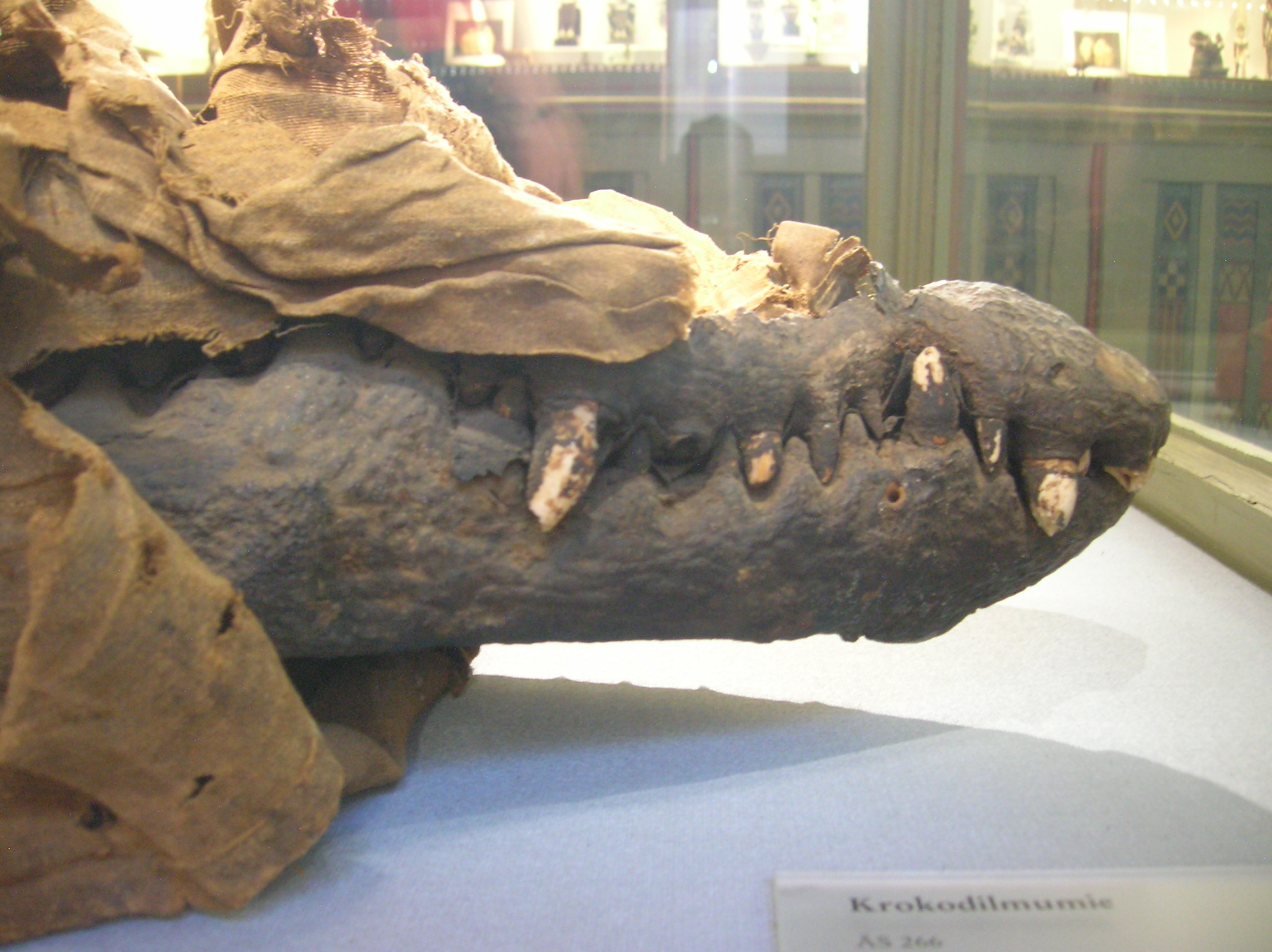 Crocodile mummy from ancient Egypt